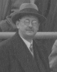 Hermann Weyl, Mathematical Society Jena, visitors' conference at Abbeanum in Jena, 26th until 28th October 1930.